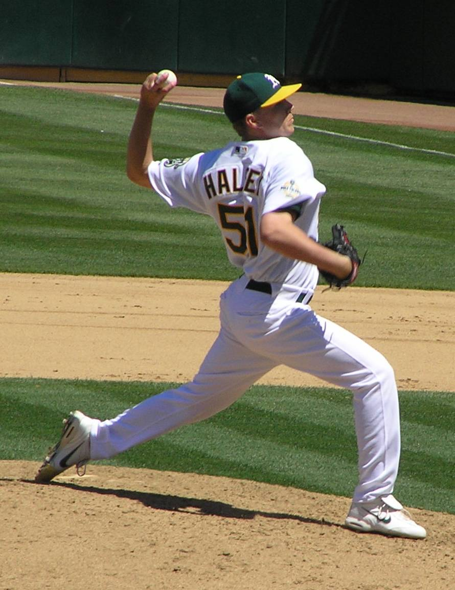 Photo by Justin Lafferty